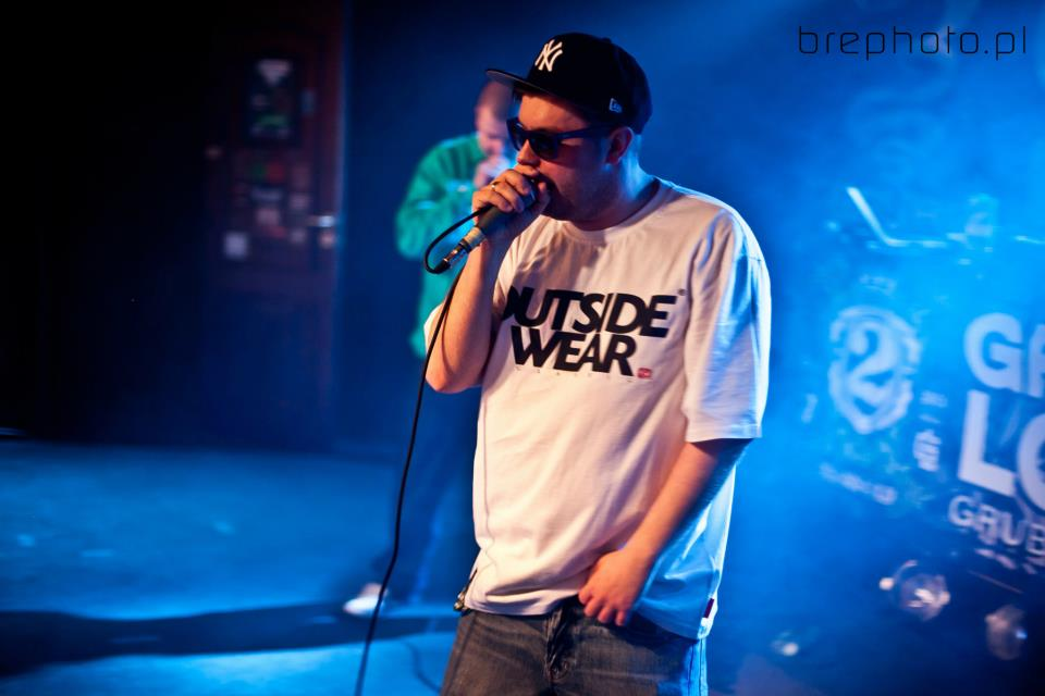 Polish rapper Onar